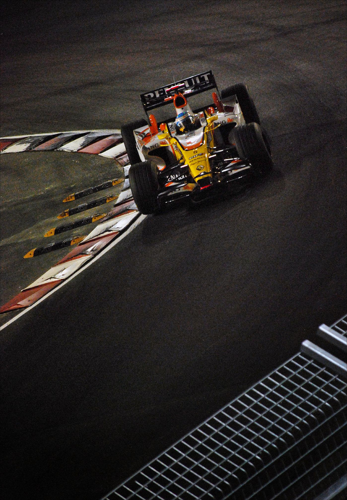 Fernando Alonso at 2008 Singpaore Grand Prix